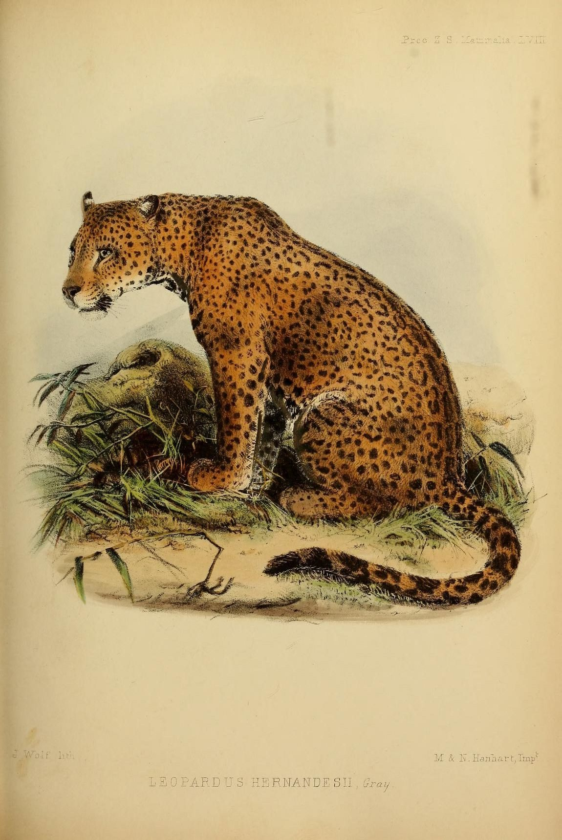 West mexican jaguar